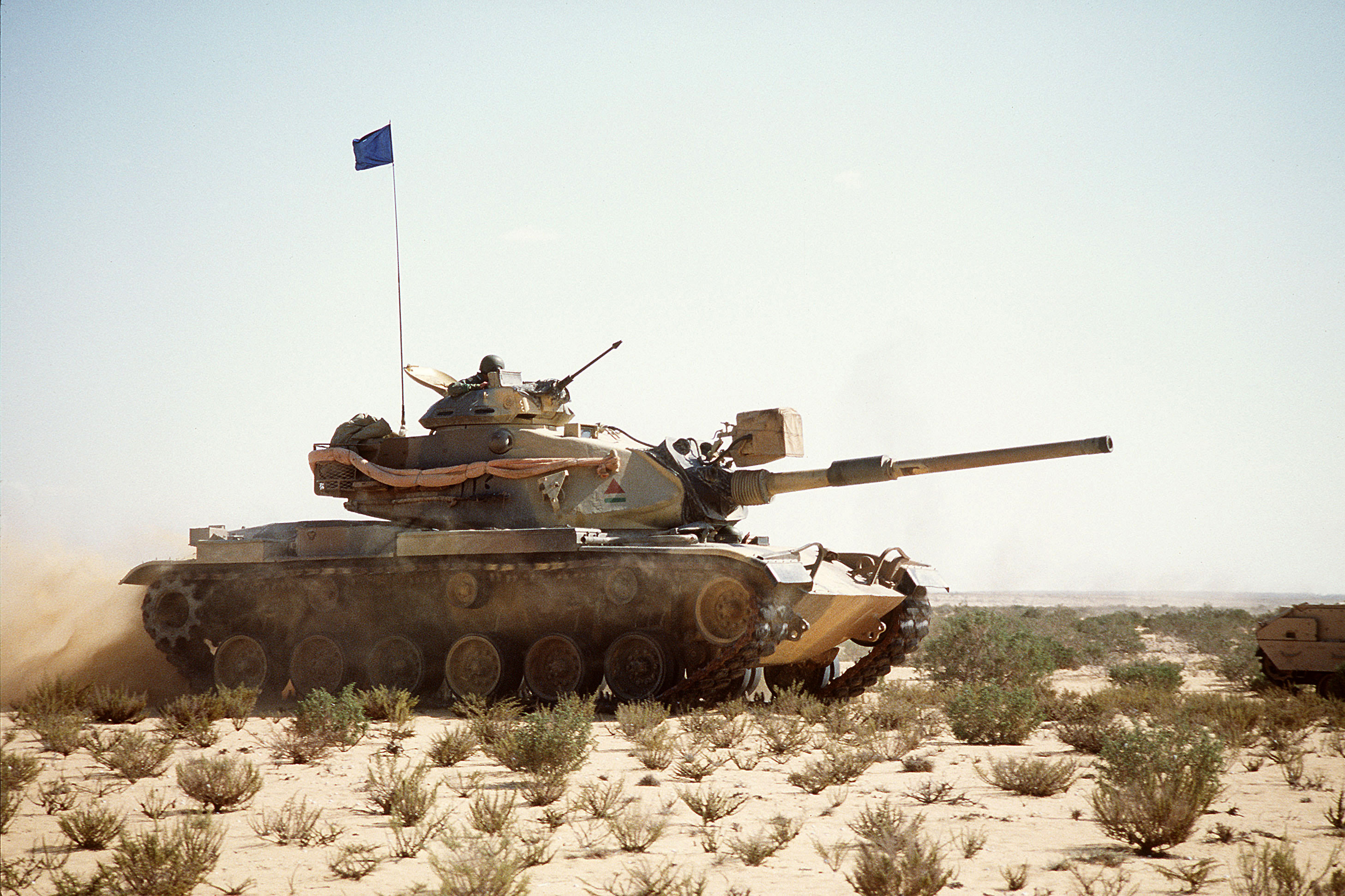 An Egyptian Army M60A1 Main Battle Tank (MBT) takes part in a live fire exercise during Exercise BRIGHT STAR '94.